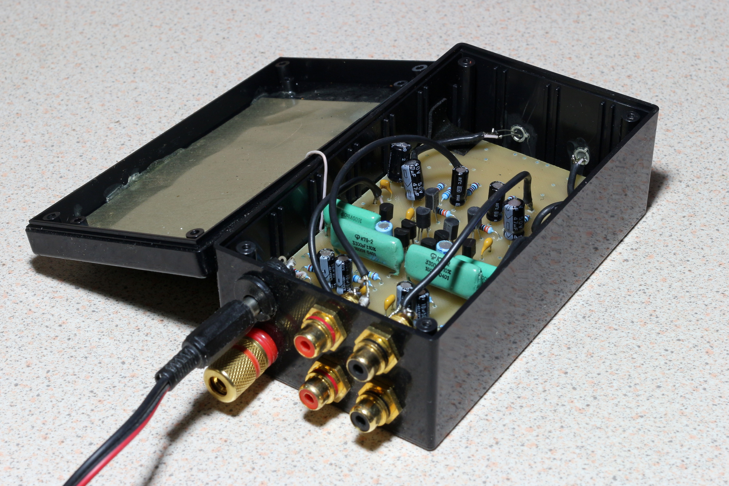 A DIY (or, perhaps, home made for sale) RIAA phono stage made in Russia in early 2000s. Discrete opamp with JFET input.